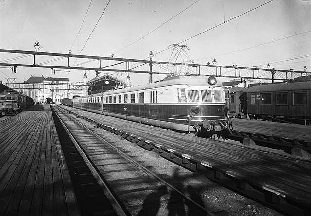 Norges Statsbaner type 66 express train at Oslo Østbanestasjon, Norway.